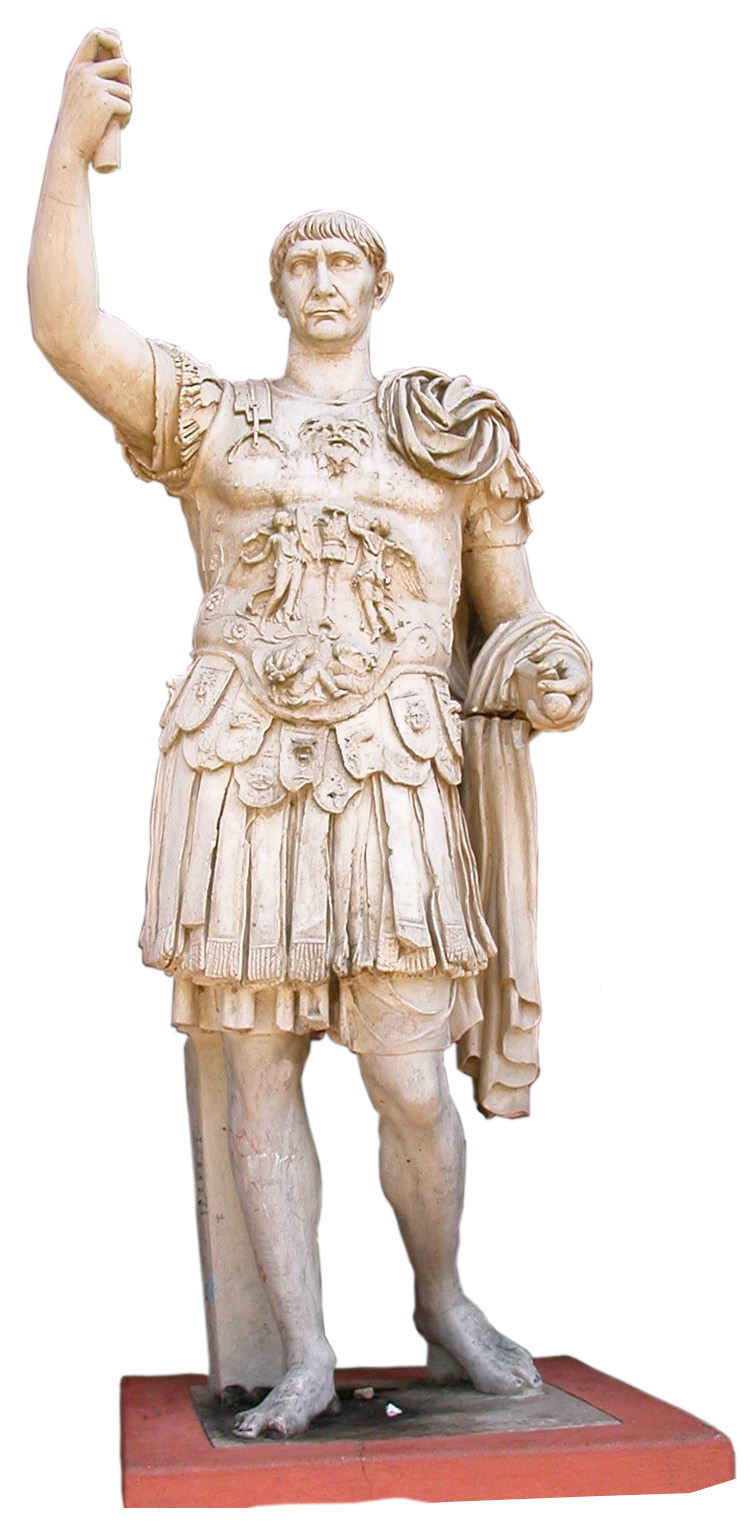 Traianus-Statue in Xanten Park, Gesamtbild.